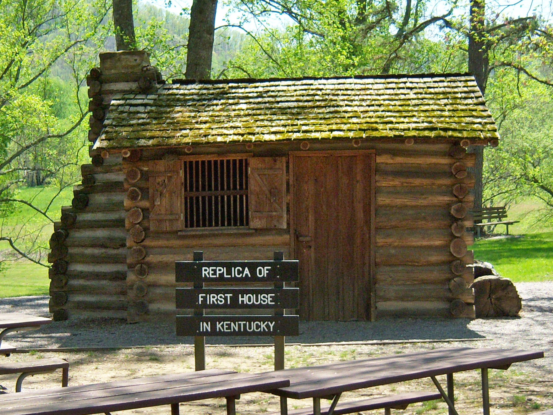 Replica of the first house built in Kentucky. It is located at Dr. Thomas Walker State Historic Site, near Barbourville, Kentucky.